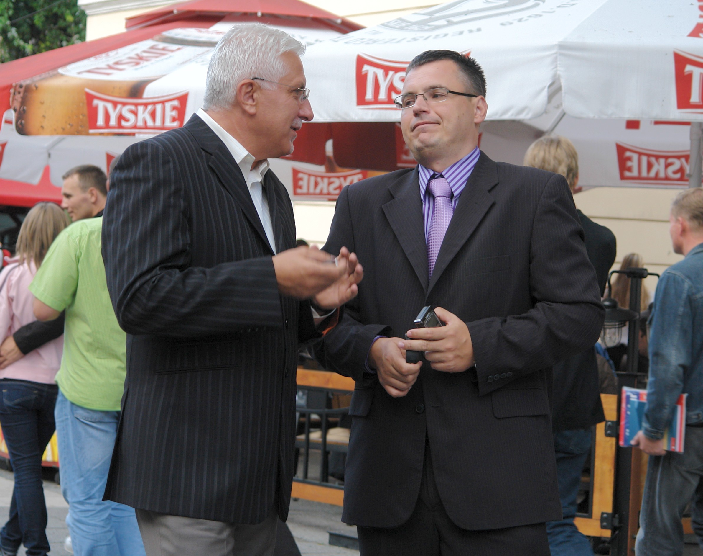 The Mayor of Nowa Sól, Wadim Tyszkiewicz talks to the Mayor of Zielona Góra, Janusz Kubicki